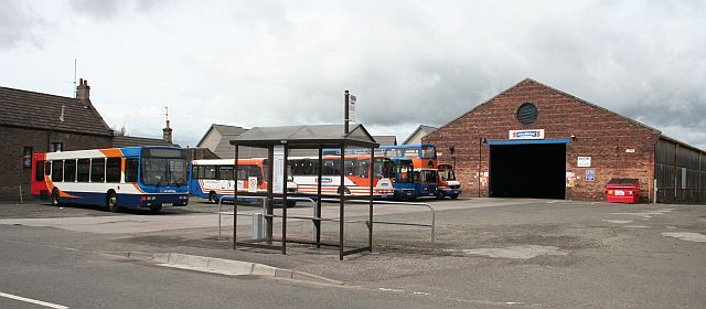 Forfar bus depot, Angus, Scotland. Strathtay Scottish and Stagecoach buses can be seen.